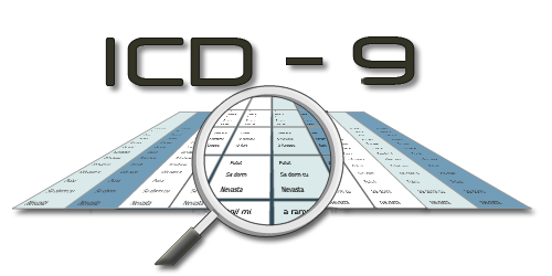 icd-9 codes